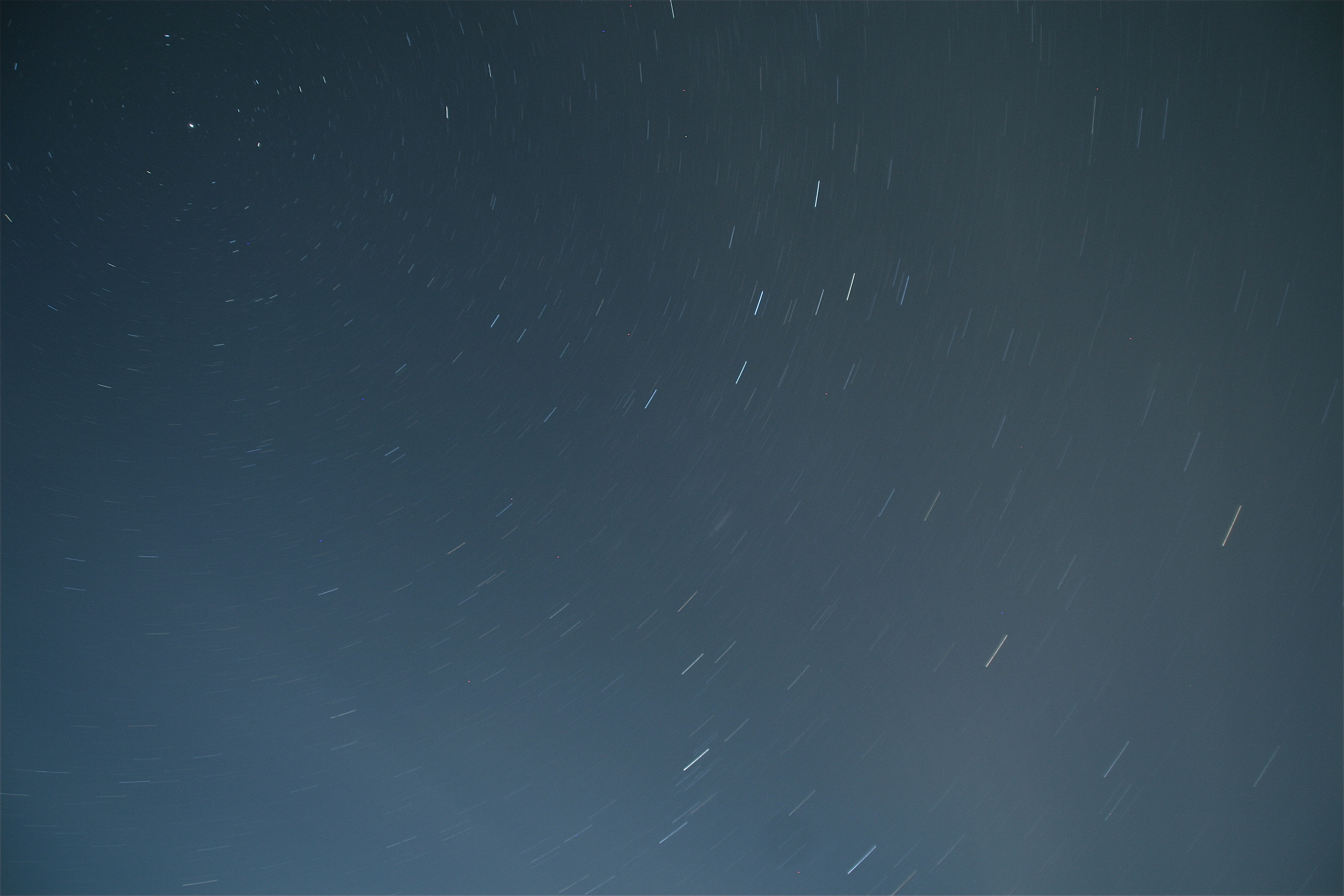 A long exposure of the North Star